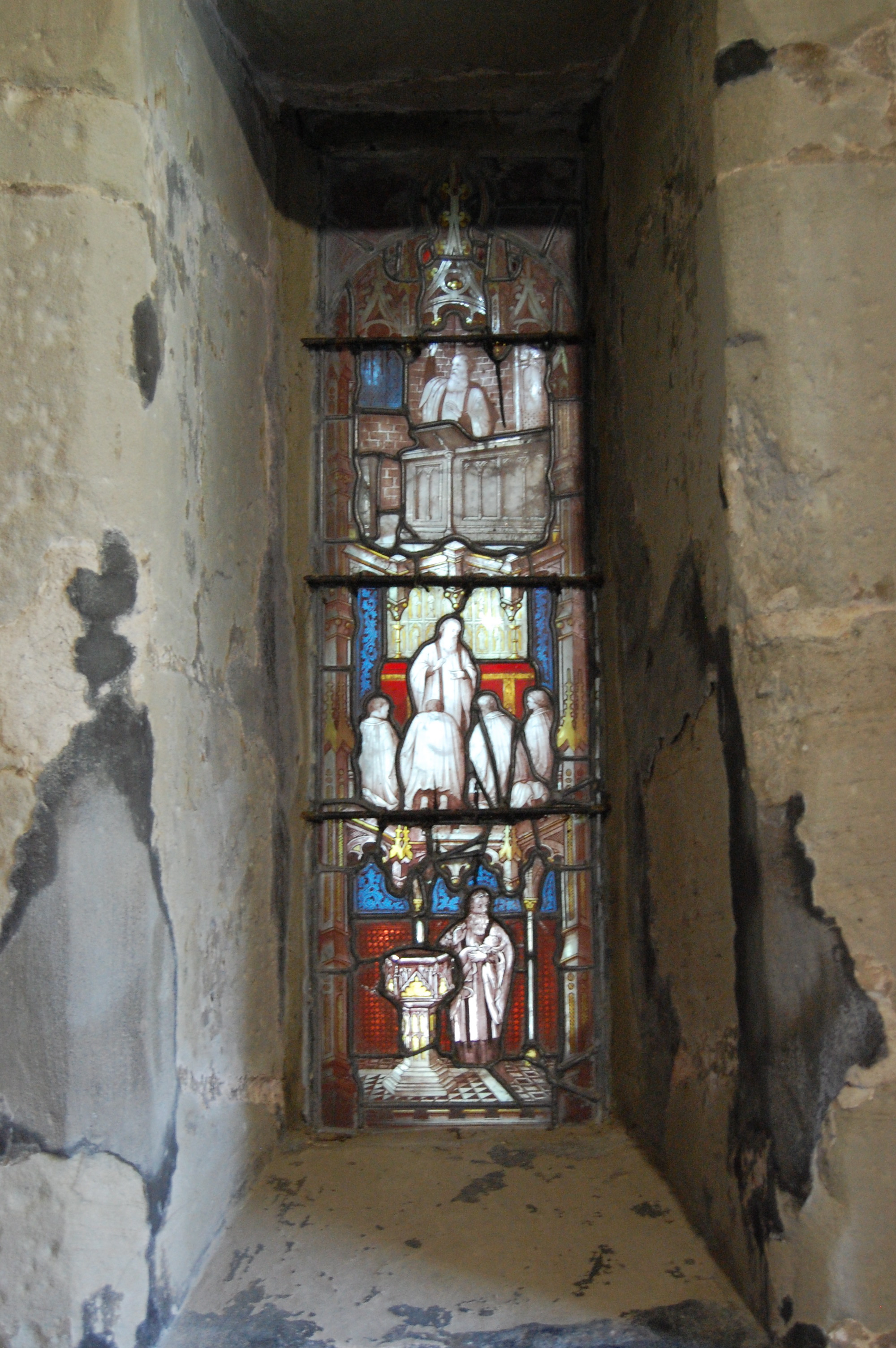 Fading paint on a glass panel from Holy Trinity Church in Stratford-upon-Avon, UK. October 2008.